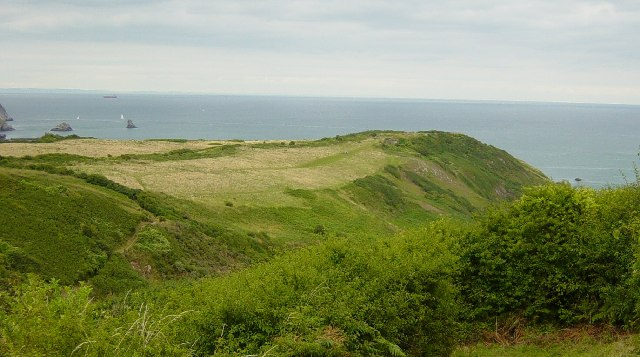 Sharkham Point is a headland located close to the Devon fishing town of Brixham, overlooking St. Mary's Bay.